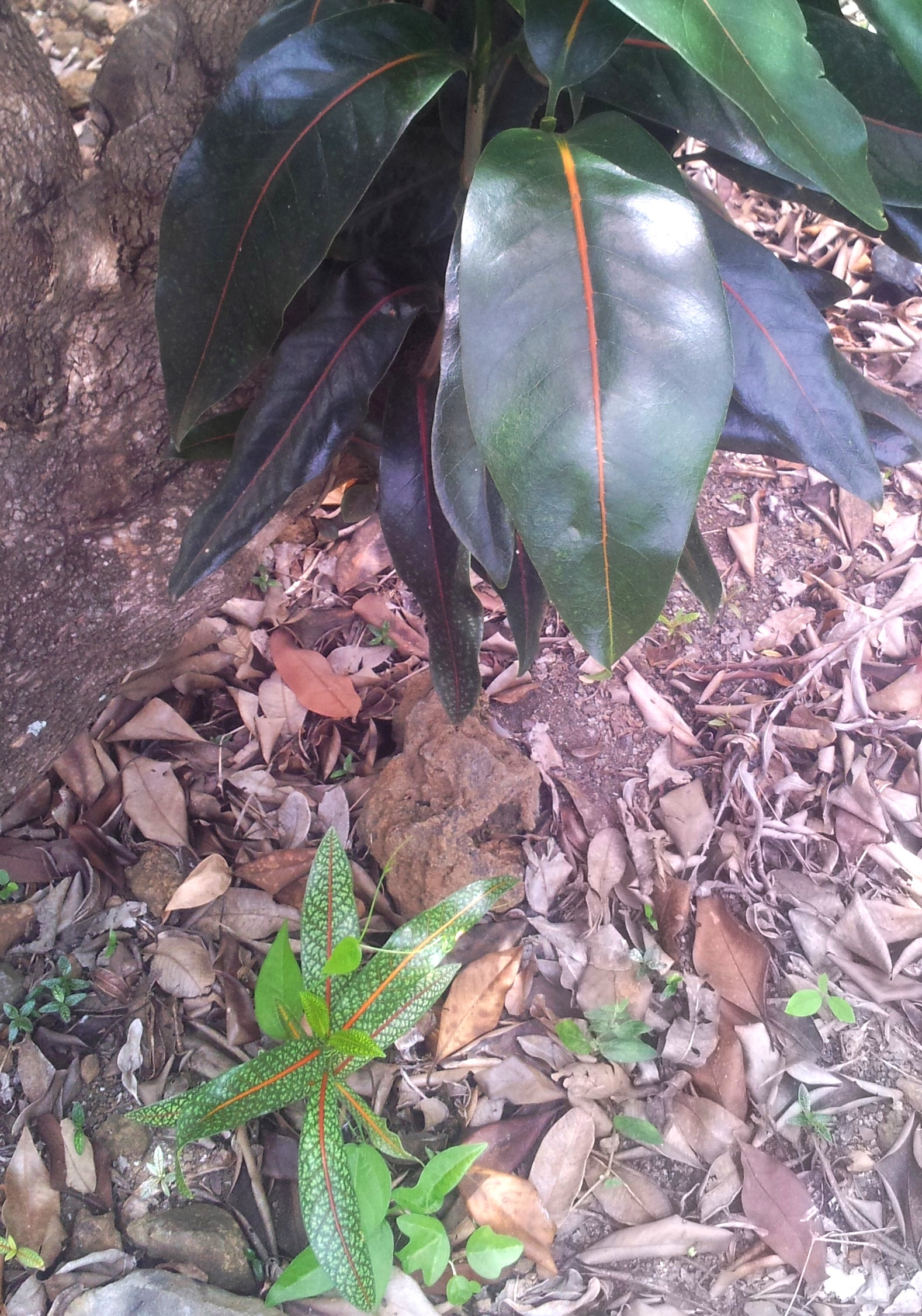 Bois de Rat 2 Adult foliage and flowers - Terenna borbonica